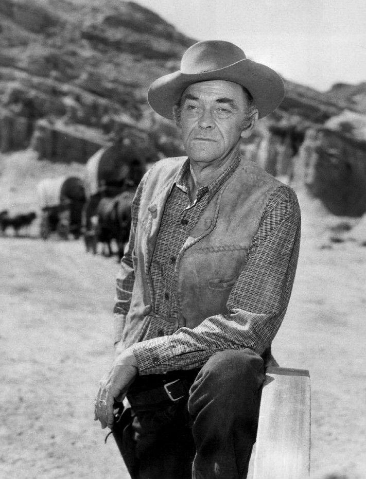 Photo of John McIntire as wagonmaster Chris Hale from the television program Wagon Train.